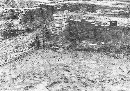 Excavation at Torenberg Castle, in Zaamslag (Netherlands)